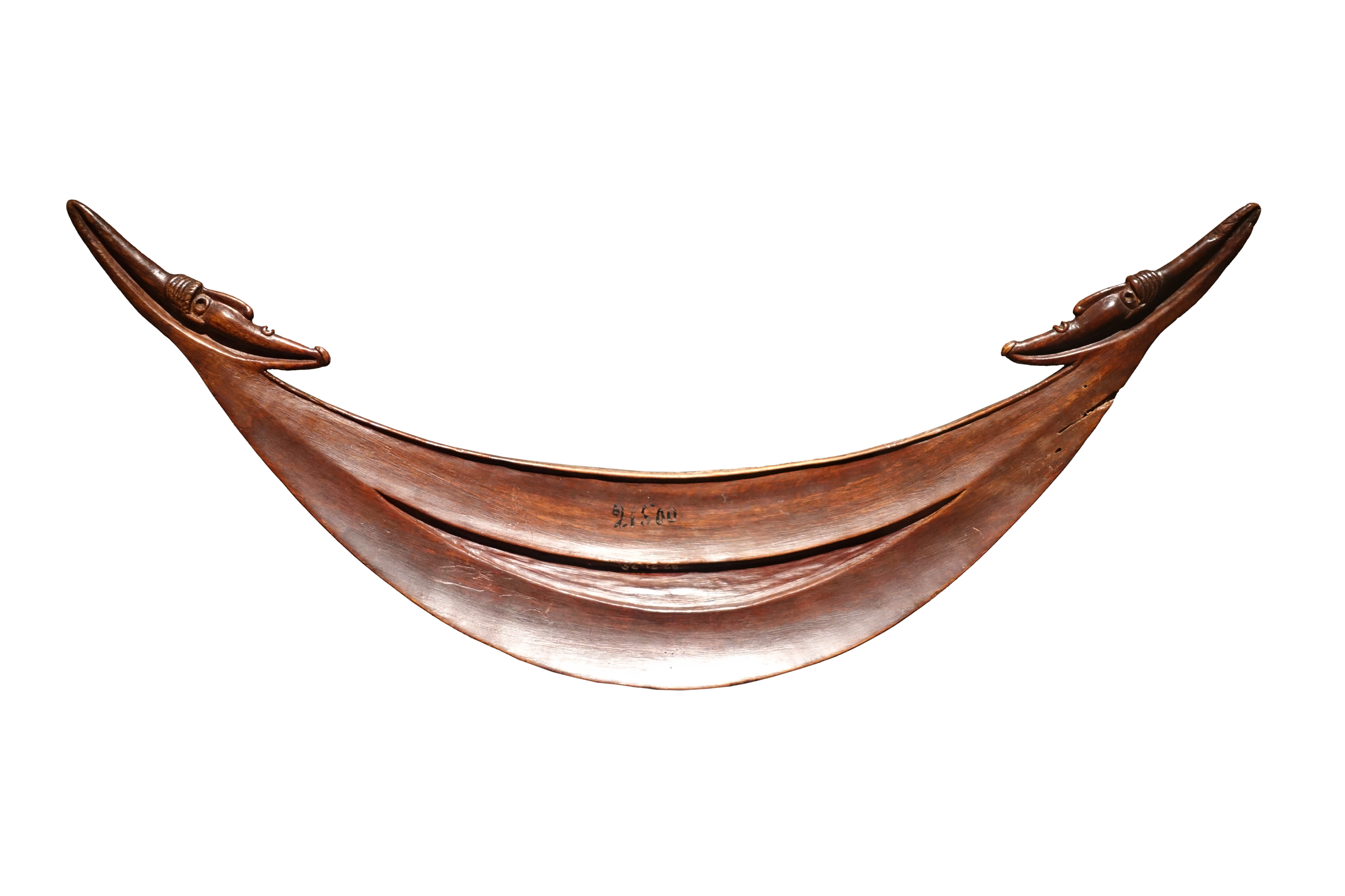 An old rei miro, with human heads on each end. The inner side features a slit which was once filled with chalk.